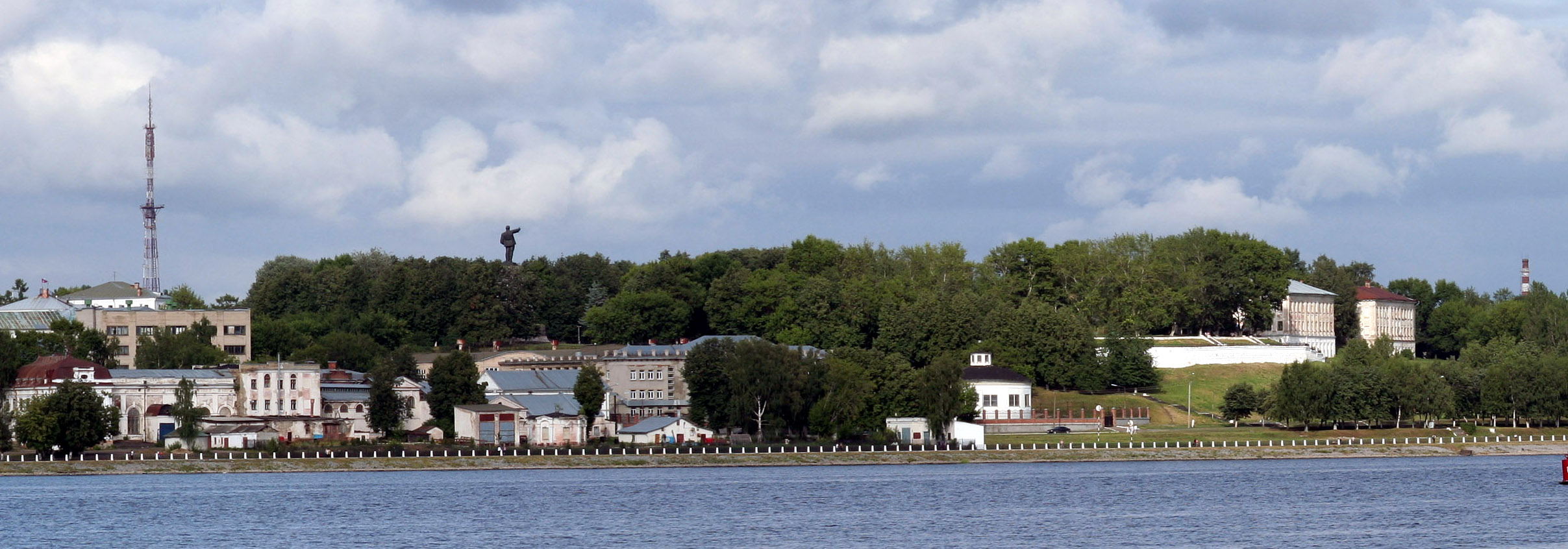 The kremlin in Kostroma